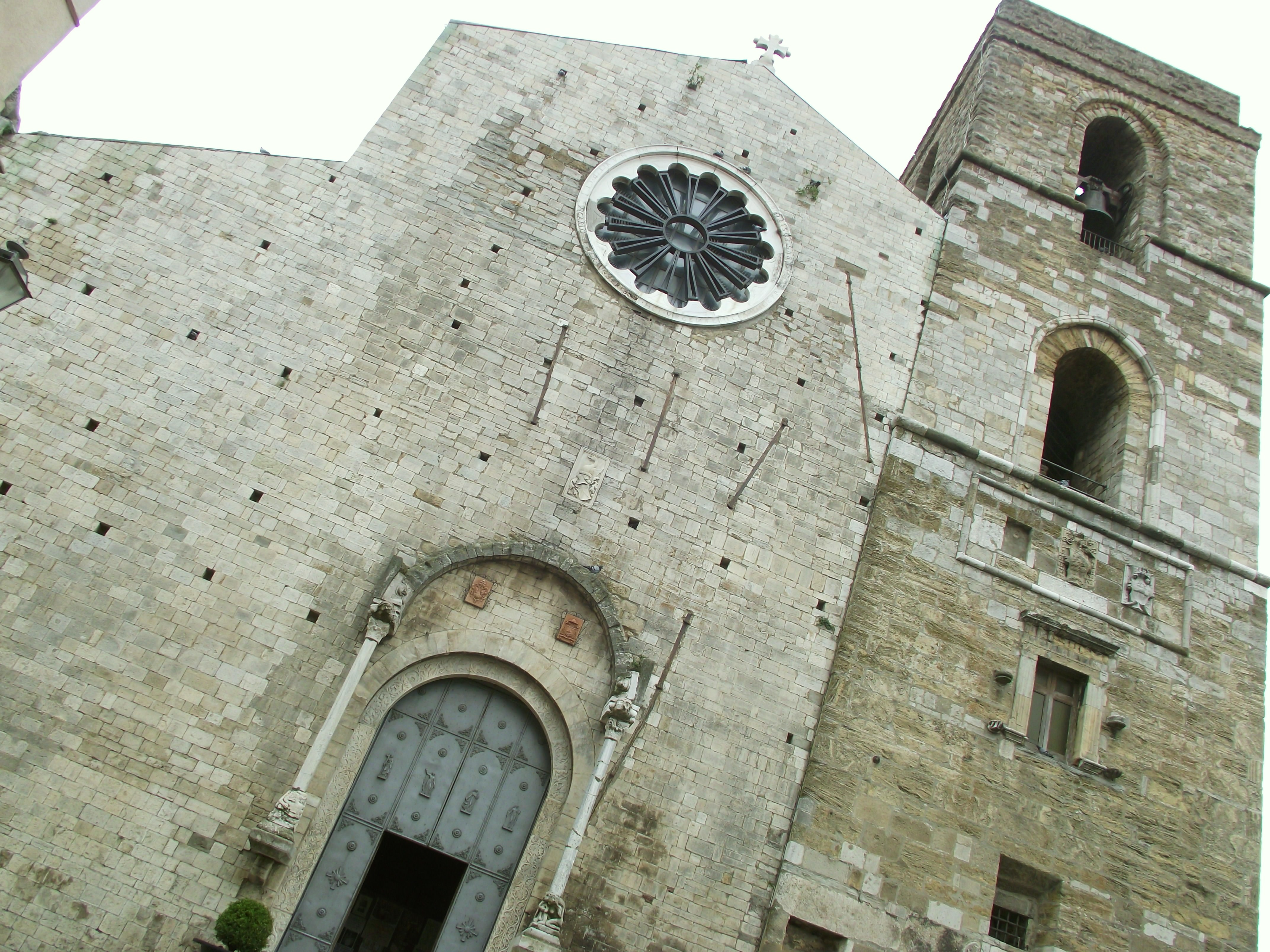 la facciata della cattedrale